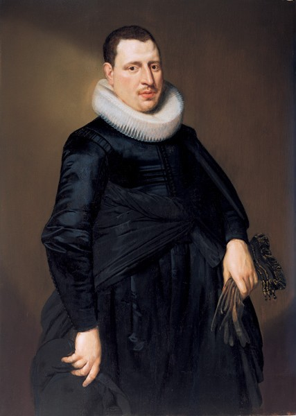 Portrait of a husband